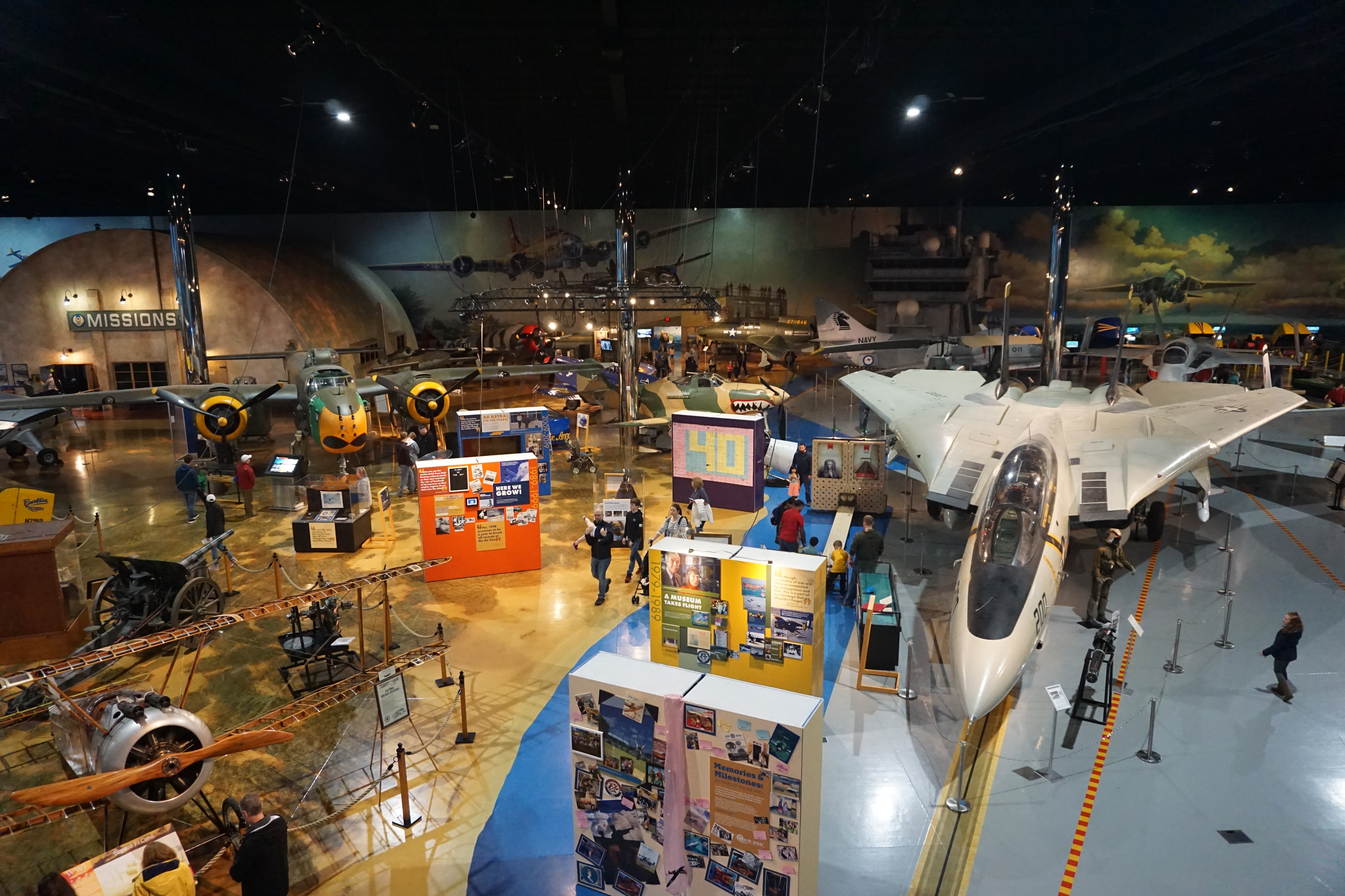 The interior of the Air Zoo at Kalamazoo/Battle Creek International Airport in Portage, Michigan (United States).